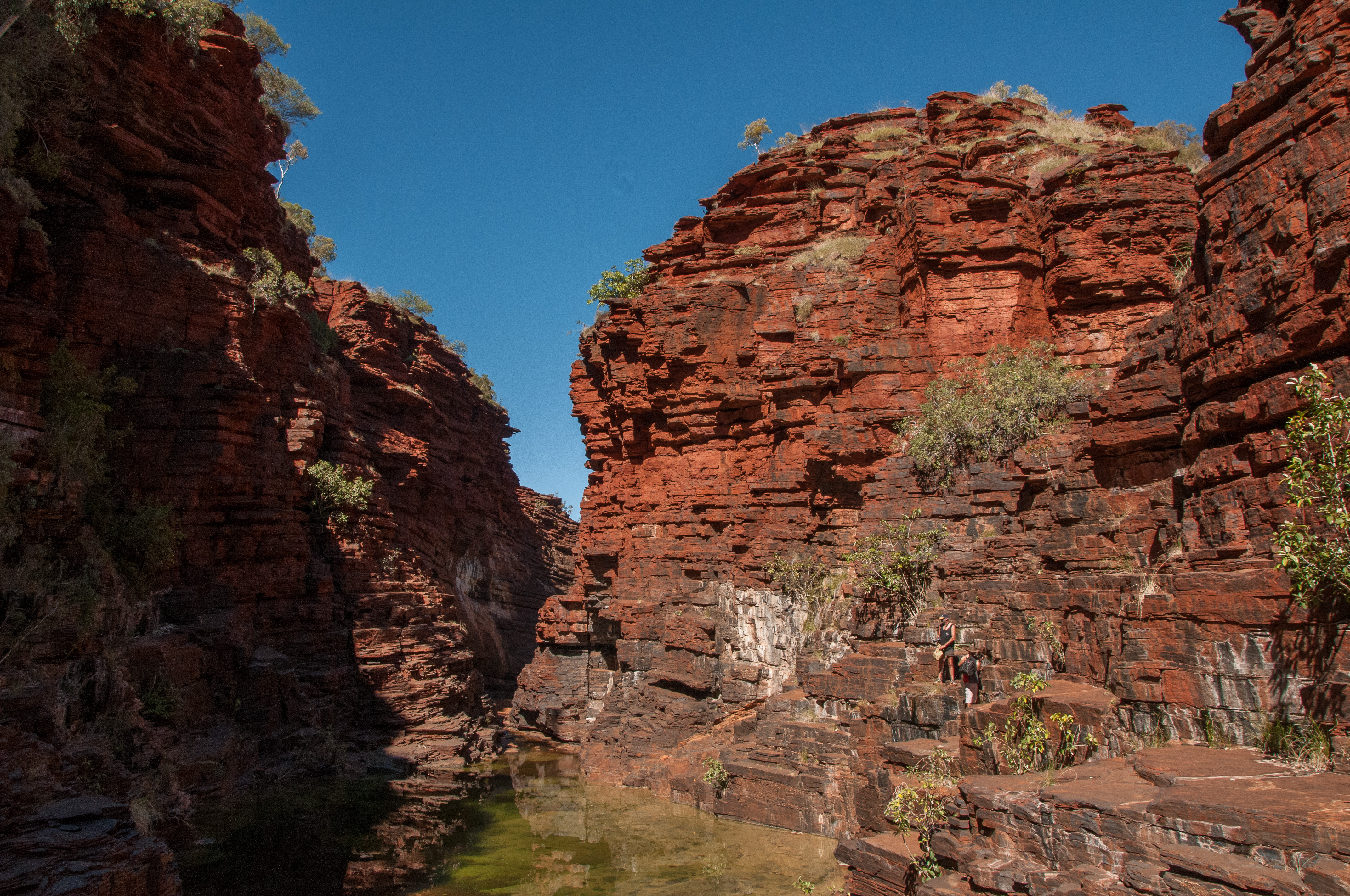 Joffre Gorge